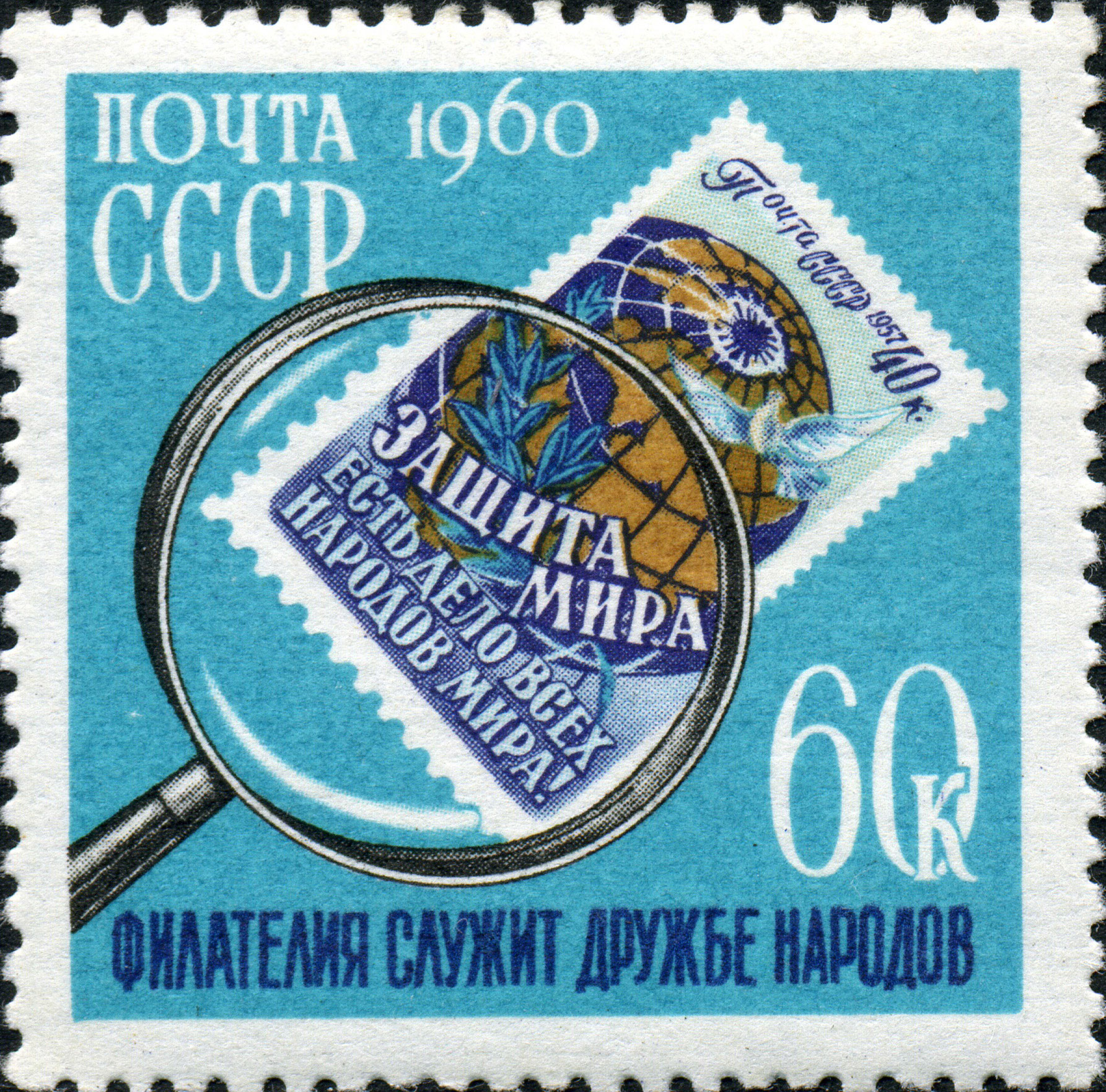 Stamp of the Soviet Union, May 1960. Day of the collector. Offset. Comb perf. 11½. Artist I. Levin.